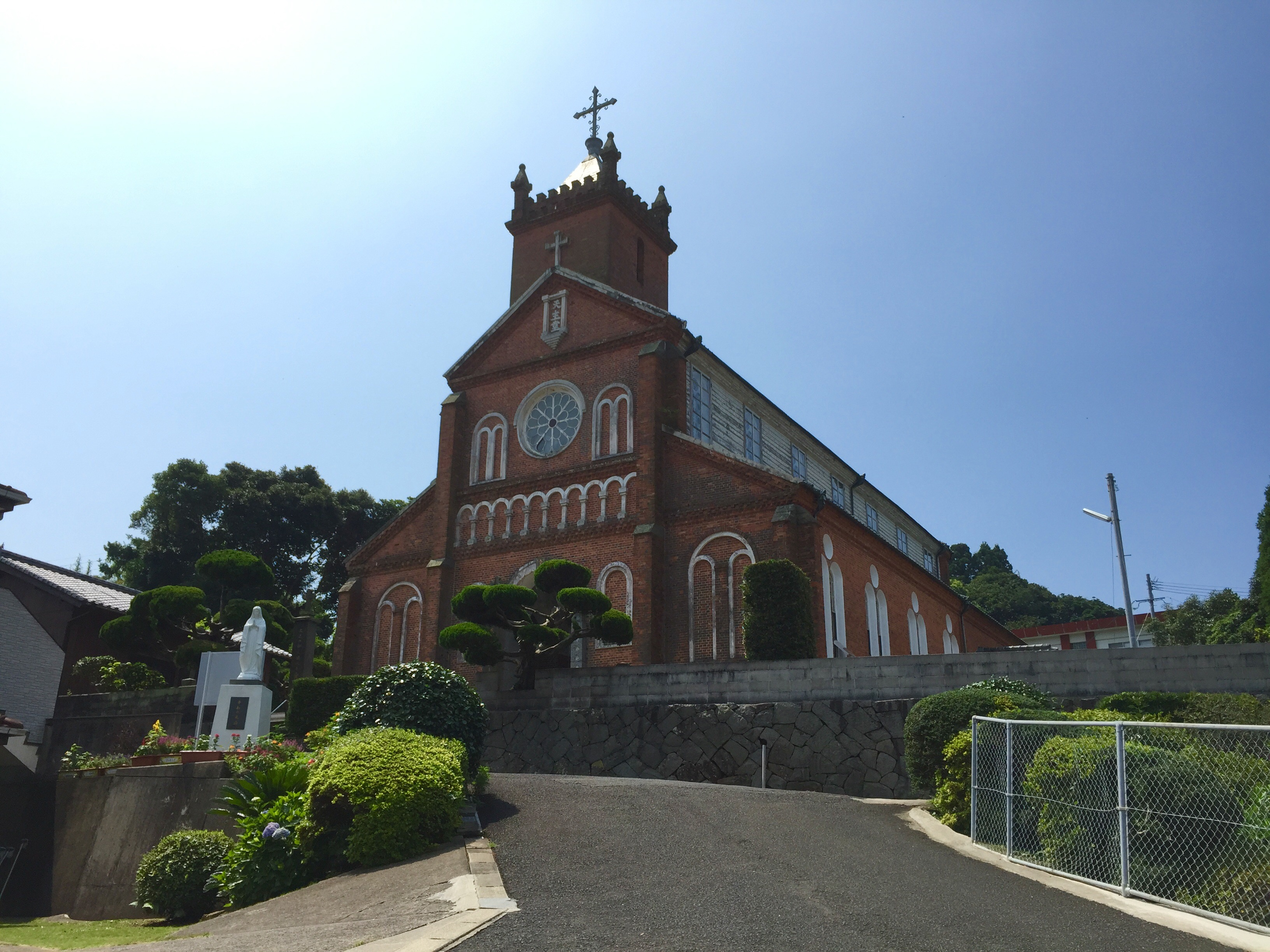 Church in Sasebo, on Kuroshima island